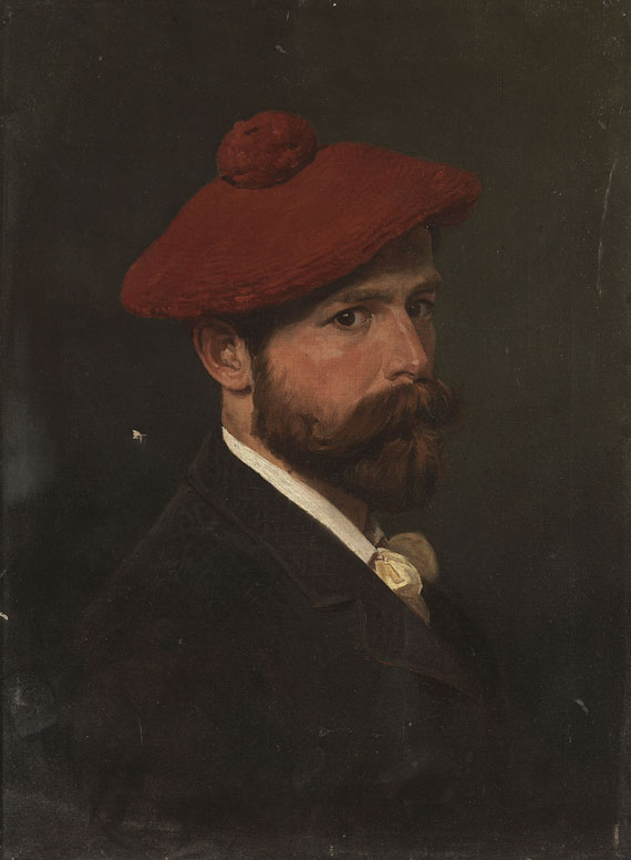 Signed and dated in left